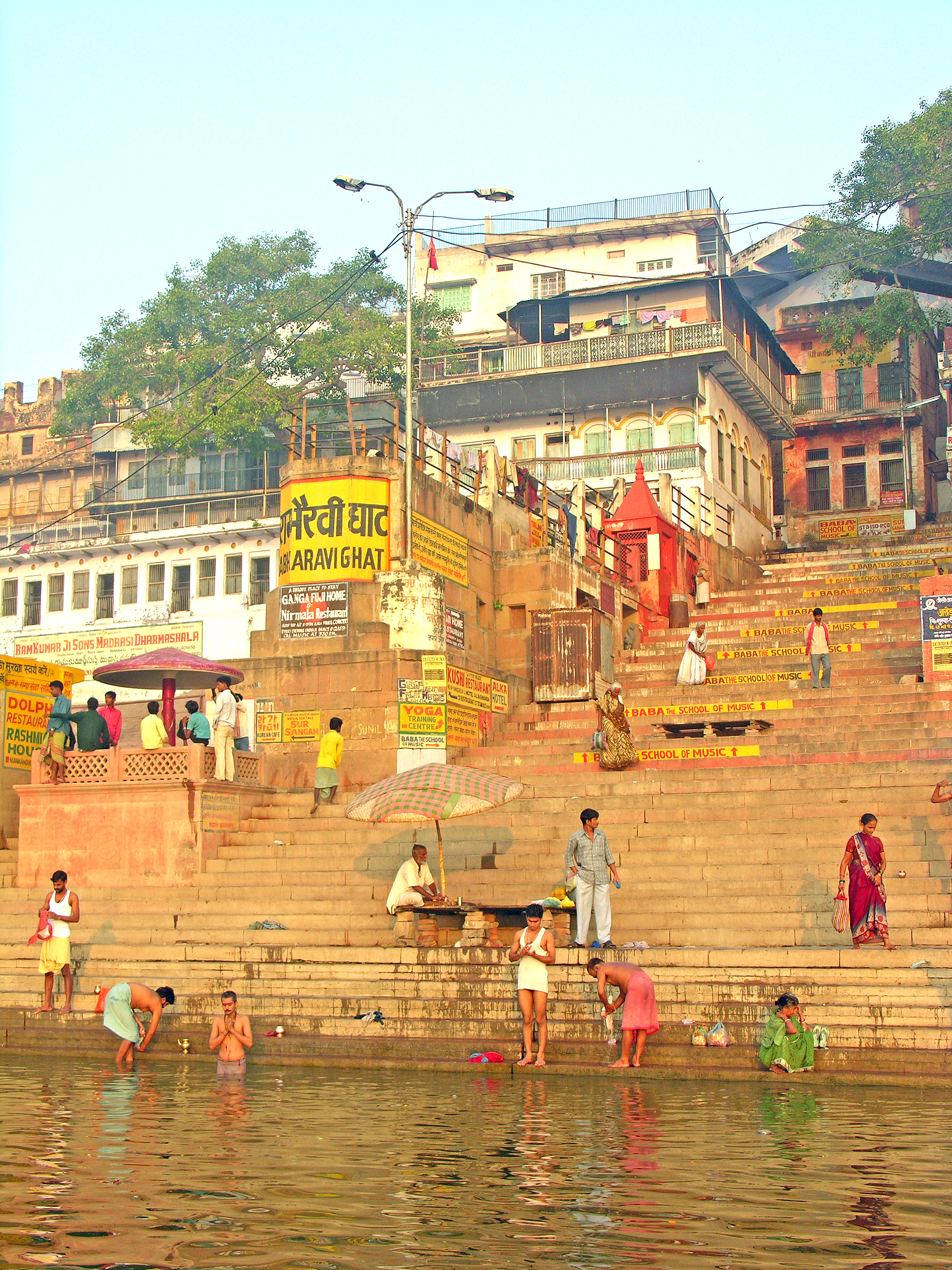 Abharavi Ghat where more people were bathing in the river.